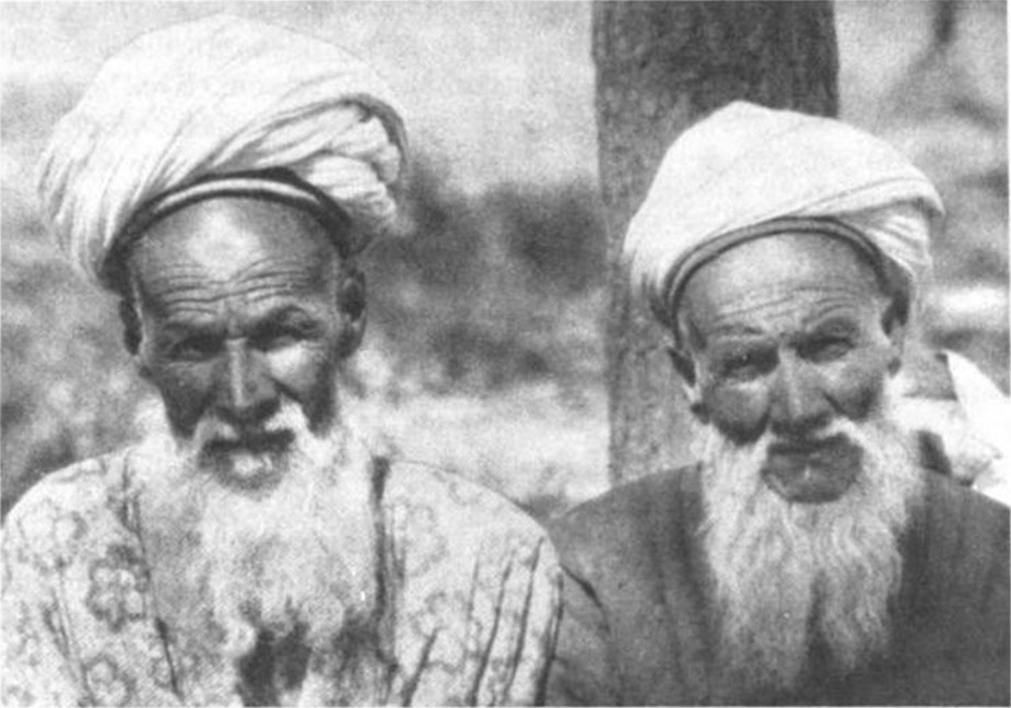 Two Uighur Mullahs in Xinjiang in the 1920's